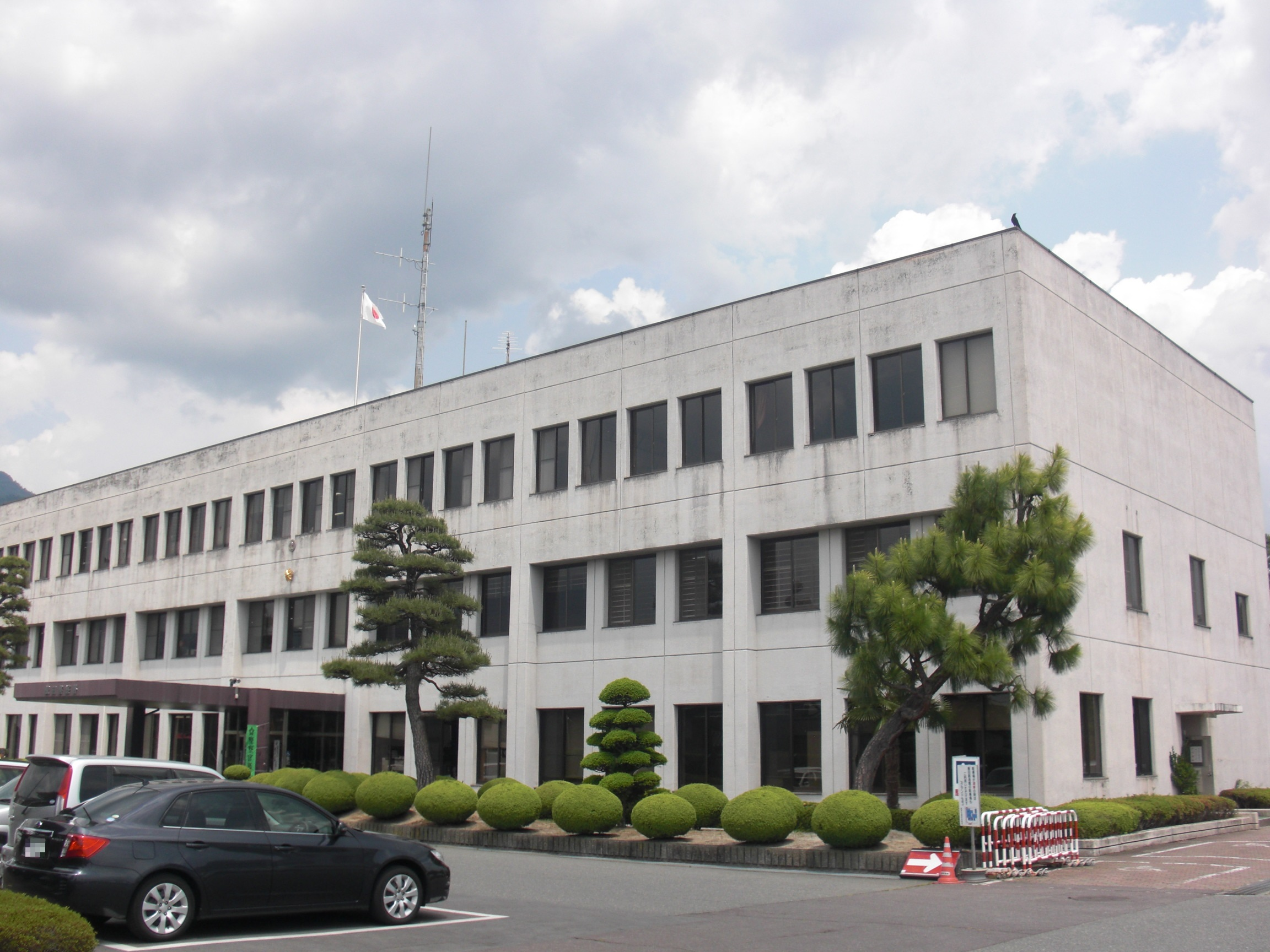 This is the Iida police station in Iida city, Nagano prefecture, Japan.